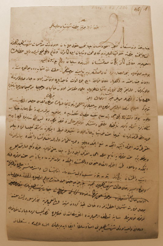 Letter from the Governor to the Vicarage of Kratovo, telling about the problems in schools and churches during religious services, caused by the Serbomans.